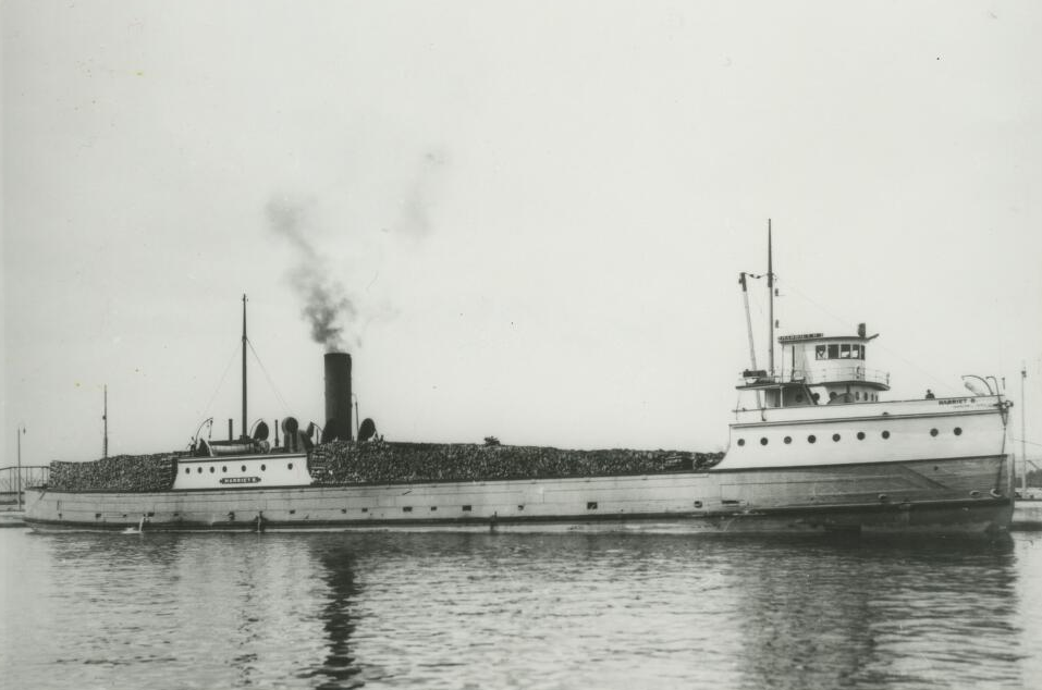 The steamer Harriet B. prior to her sinking